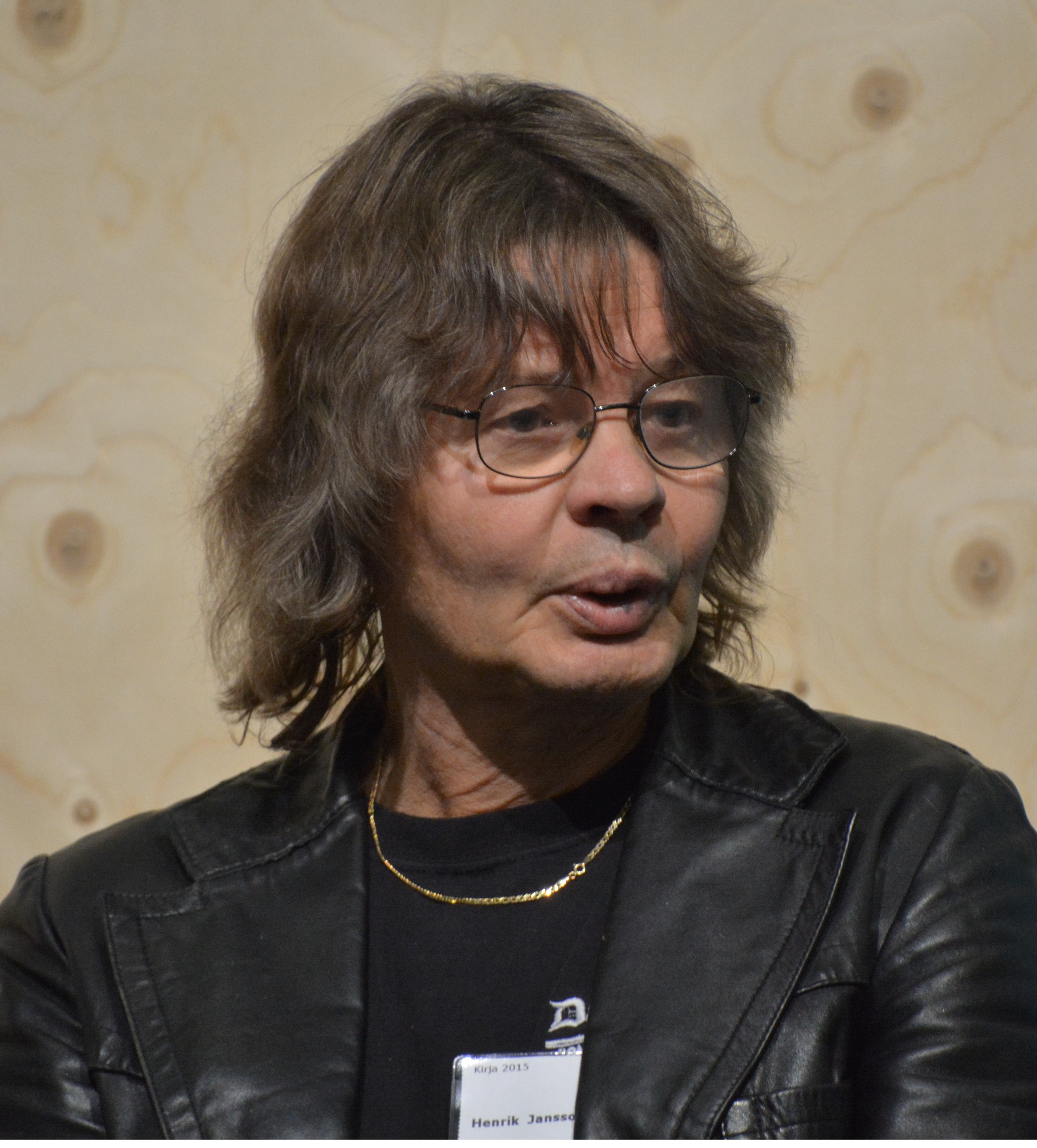 Henrik Jansson på Helsink Book Fair 2015